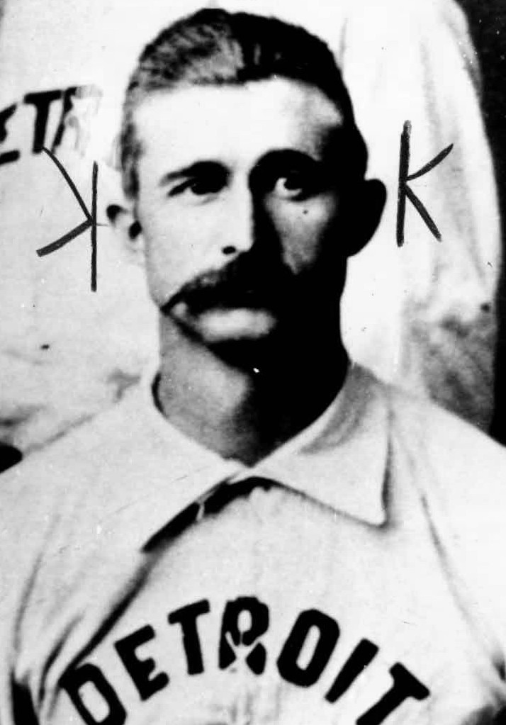 Professional baseball player Sam Thompson